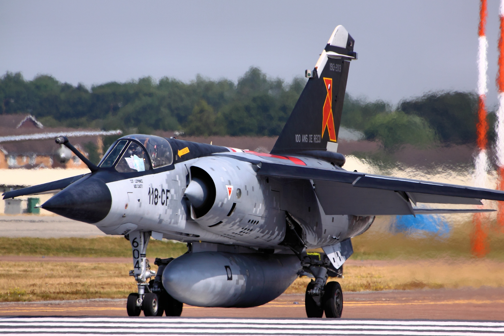 Mirage F1 - RIAT 2013 - Explored :-)